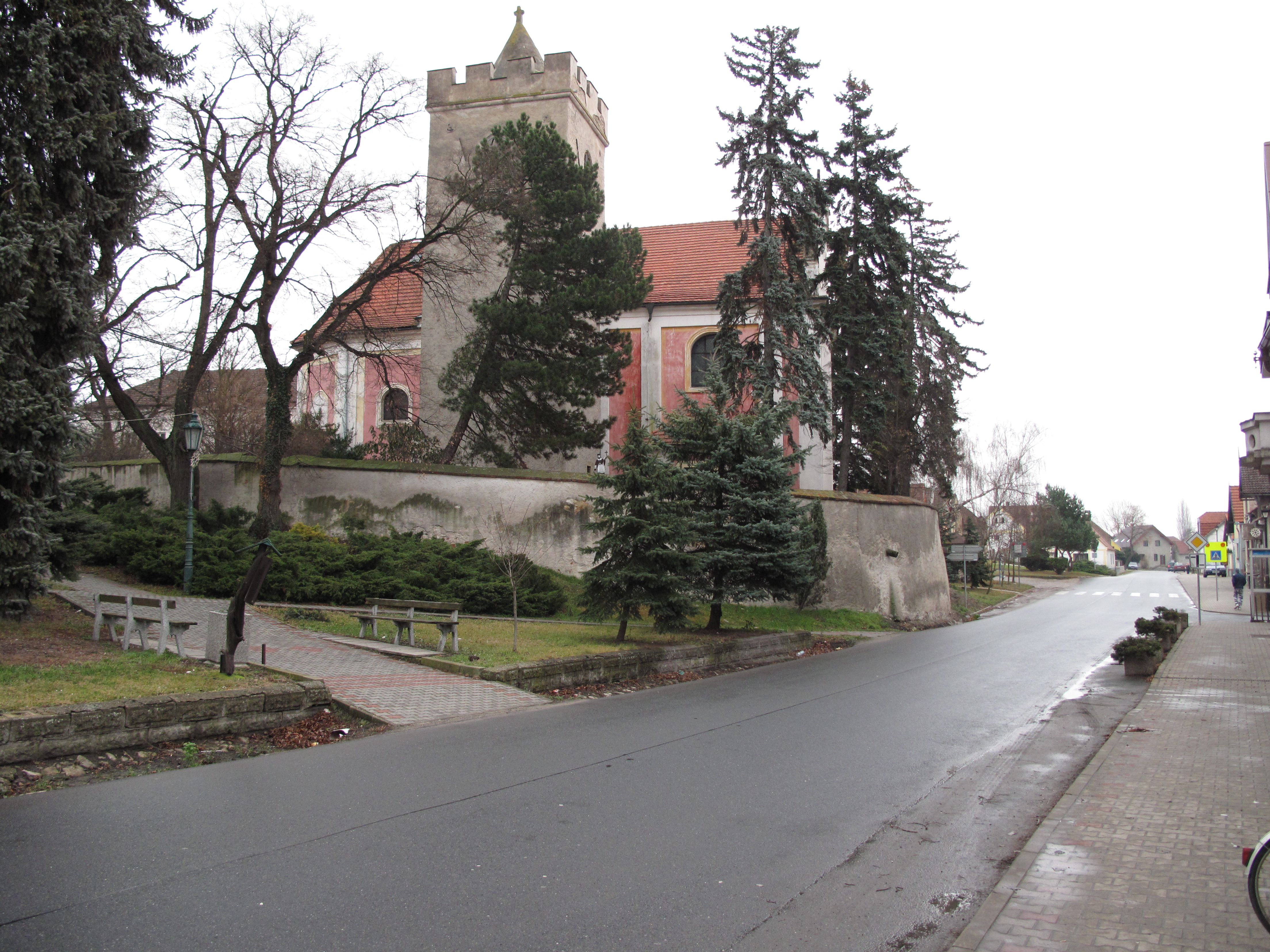 Church of St. Gall in Čečelice village, Mělník District, Czech Republic.